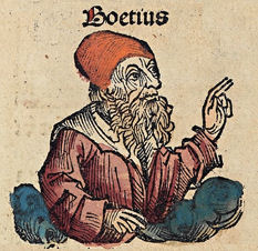 Woodcut from the Nuremberg Chronicle